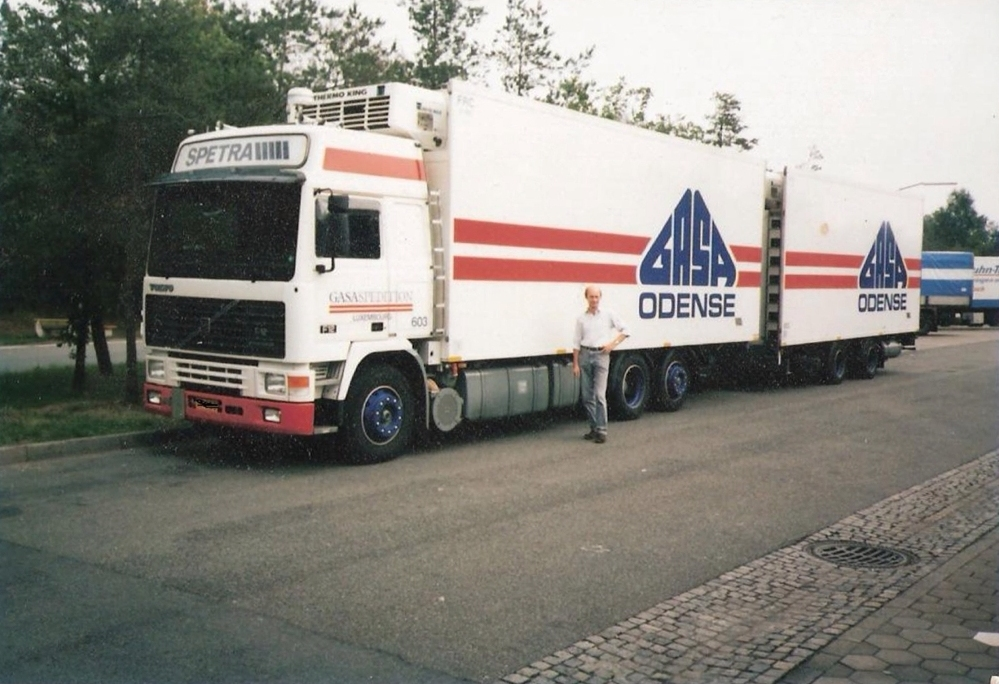 Volvo F12 Globetrotter in 1992